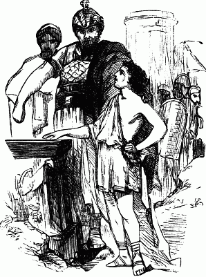 Hannibal's Vow